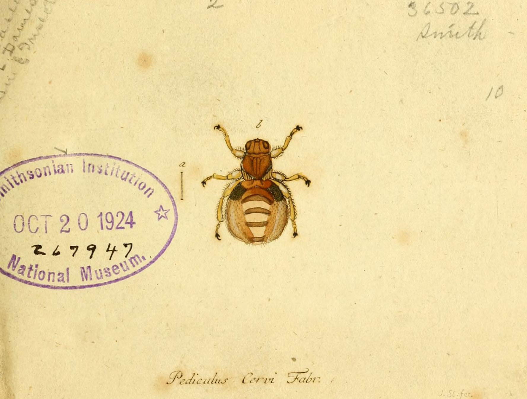 Lipoptena cervi (Linnaeus 1758) labelled as Pediculus Cervi Fabr.. a Natural size. b Enlarged.